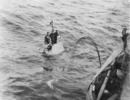 Bay of Biscay. C. 1943-08-06. A Sunderland aircraft of the famous No. 10 Squadron RAAF of Coastal Command sighted a U-boat while on anti-submarine patrol. It attacked and sank the enemy craft but was itself hit by flak and compelled to "ditch". Survivors were rescued by a sloop of the Royal Navy where it chanced that a member of the same squadron, 2058 Flight Lieutenant J. B. Jewell DFC of Adelaide, SA, was spending his leave under the scheme for closer co-operation between the RAF and the Navy. Here a rope is being thrown from the sloop to the survivors of the Sunderland who are clinging to a portion of the starboard wing which had broken off, with its float attached.